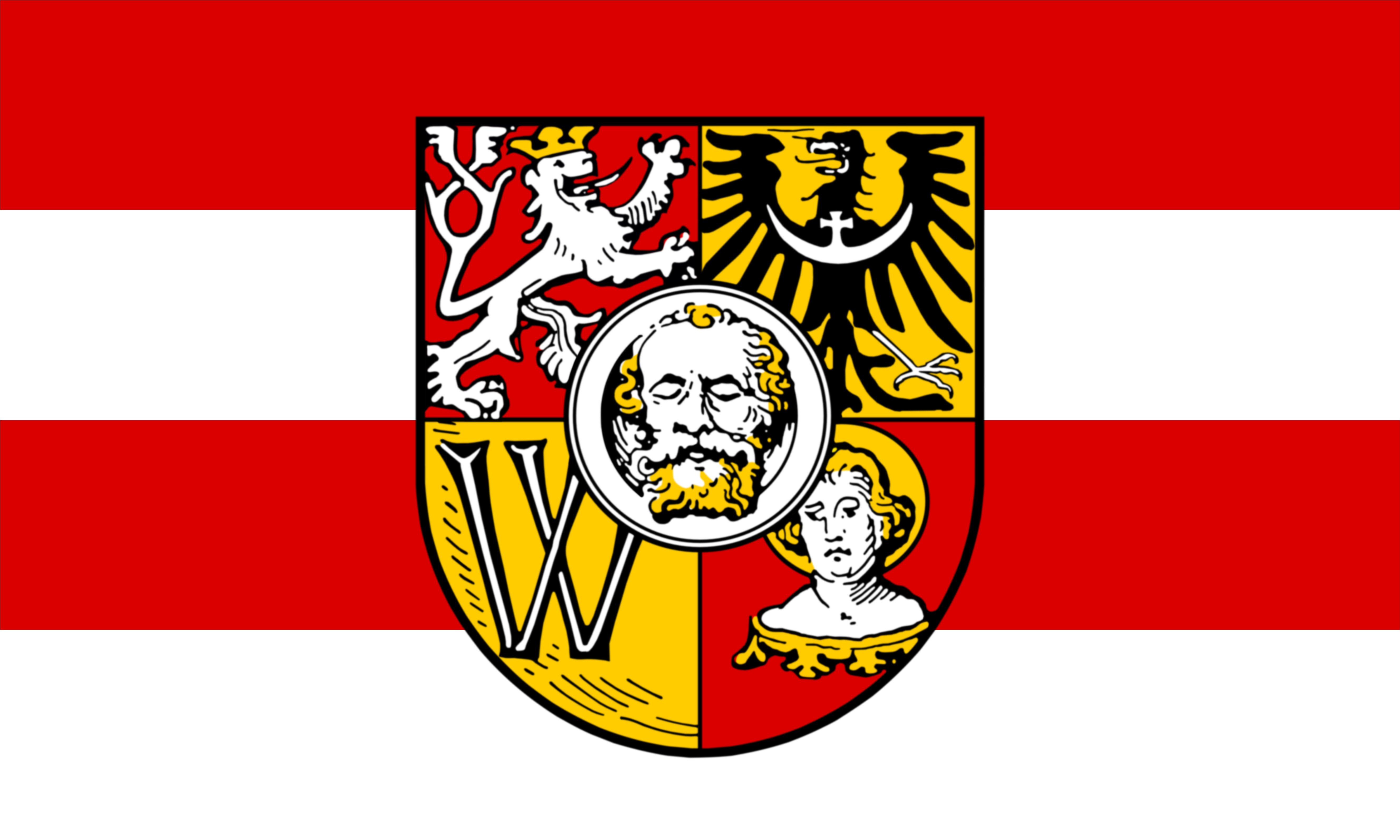 Flag of the city of Breslau (today Wrocław)